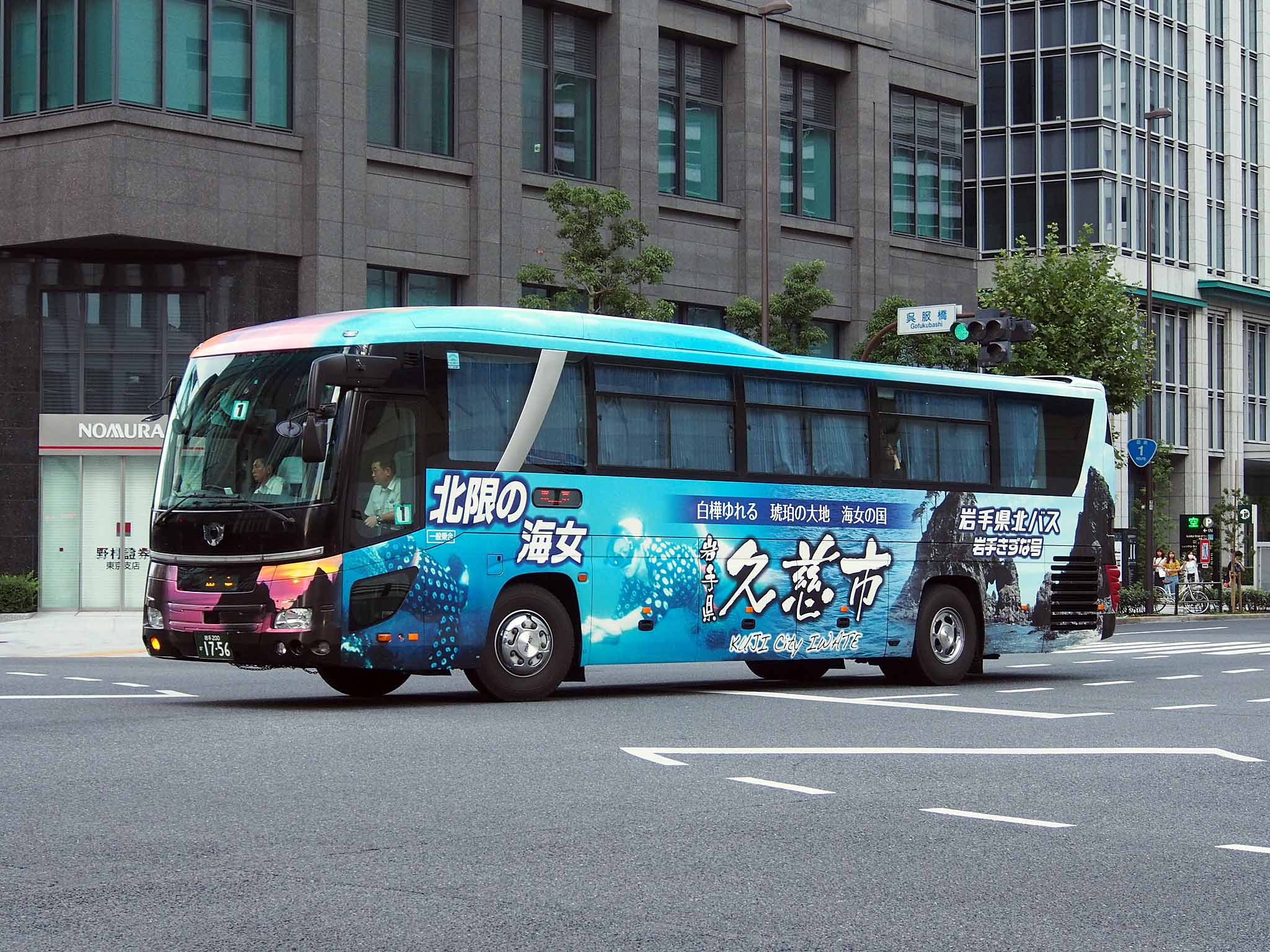 Fleet of Iwate Kenpoku Jidosha, for "Iwate Kizuna". Model: Hino Selega RU1ES or RU1AS License plate: IWI200KA1756 Place: Gofukubashi Crossing, Chuo Ward, Tokyo Japan